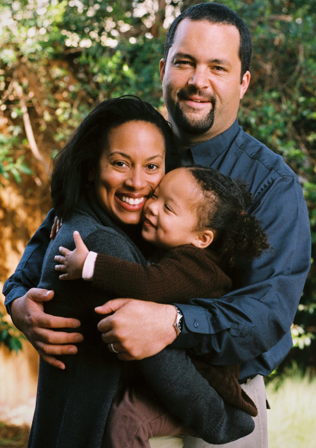 Benjamin Todd Jealous, president-elect of the NAACP; his wife, Lia Epperson Jealous, a professor of constitutional law at Santa Clara University; their 2 1/2 year old daughter, Morgan.